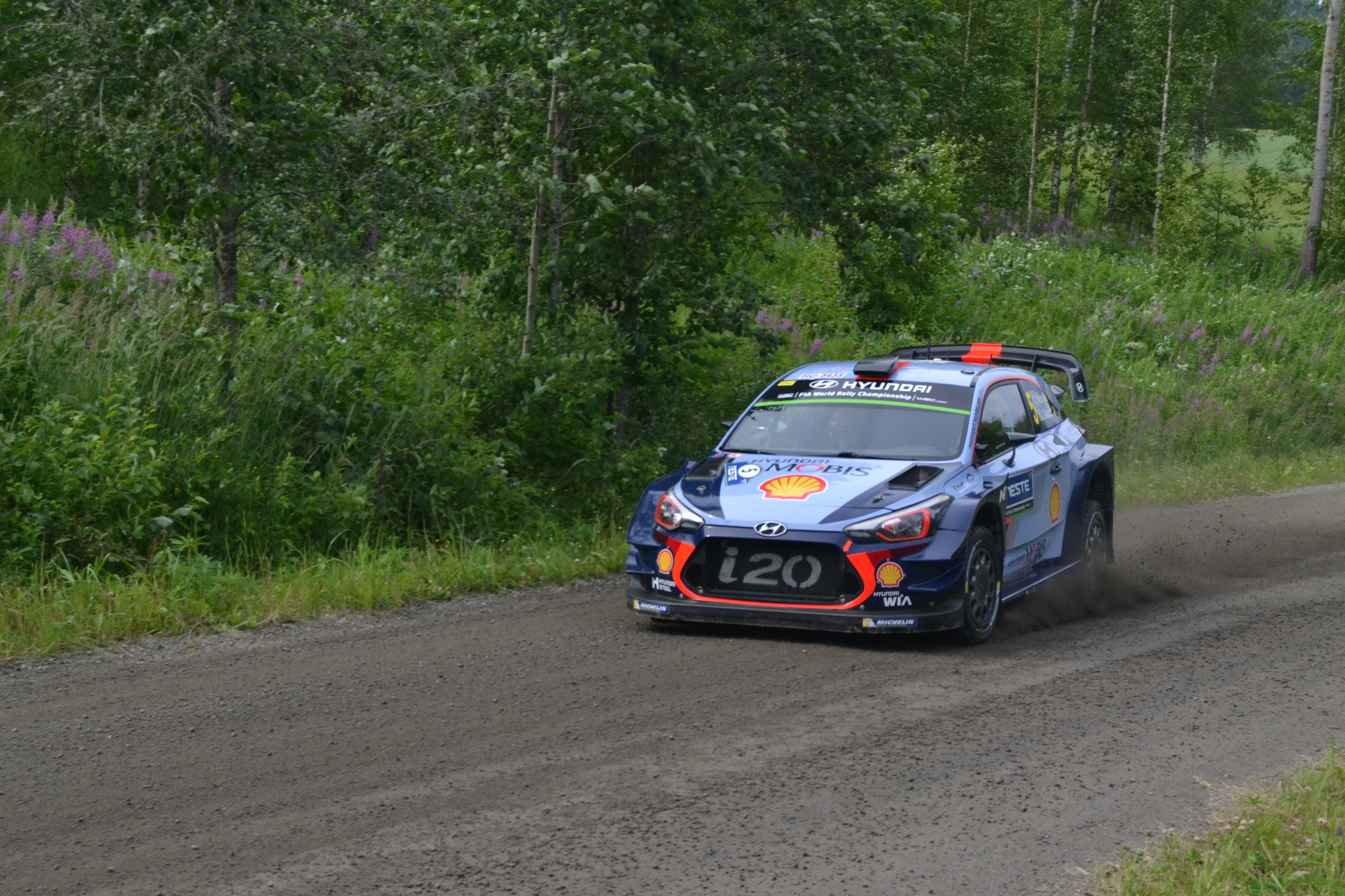 Thierry Neuville at second Saalahti stage at Rally Finland 2017